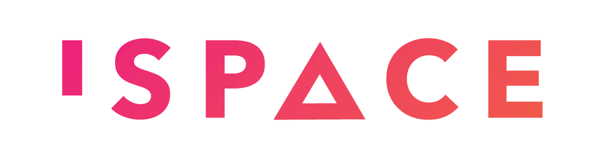 The official ISpace logo from 2016